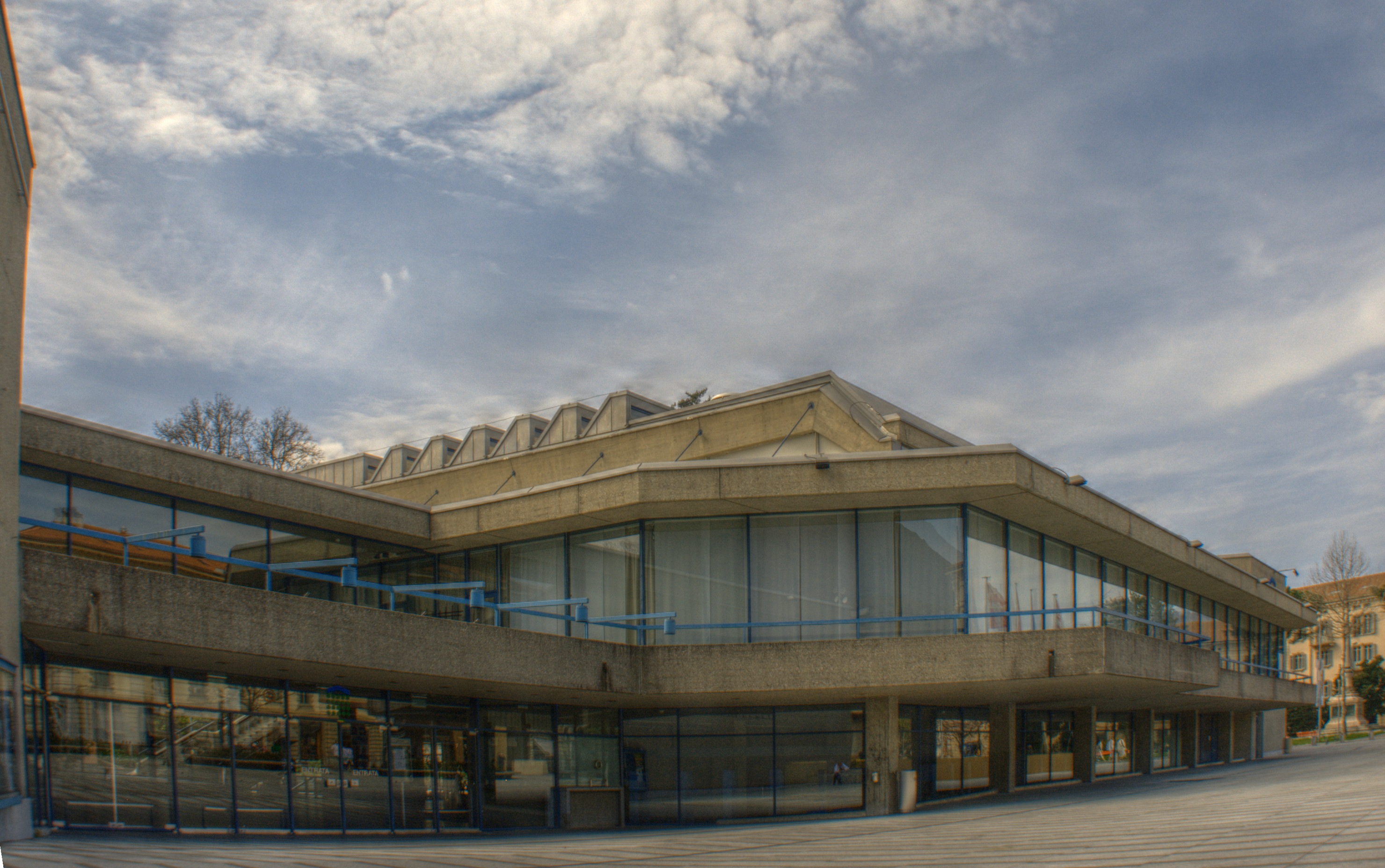 Lugano, Tessin, Switzerland - Congress building